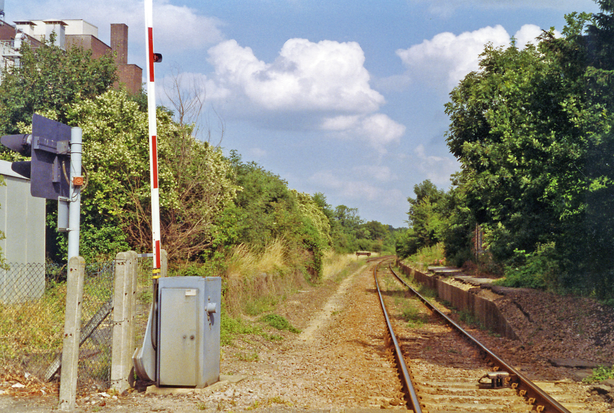 Fulbourn station (site/remains), 1993. View westward, towards Cambridge: ex-GER Cambridge - Newmarket - Bury St Edmunds - Ipswich secondary main line. The station closed 2/1/67, but the line still functions.